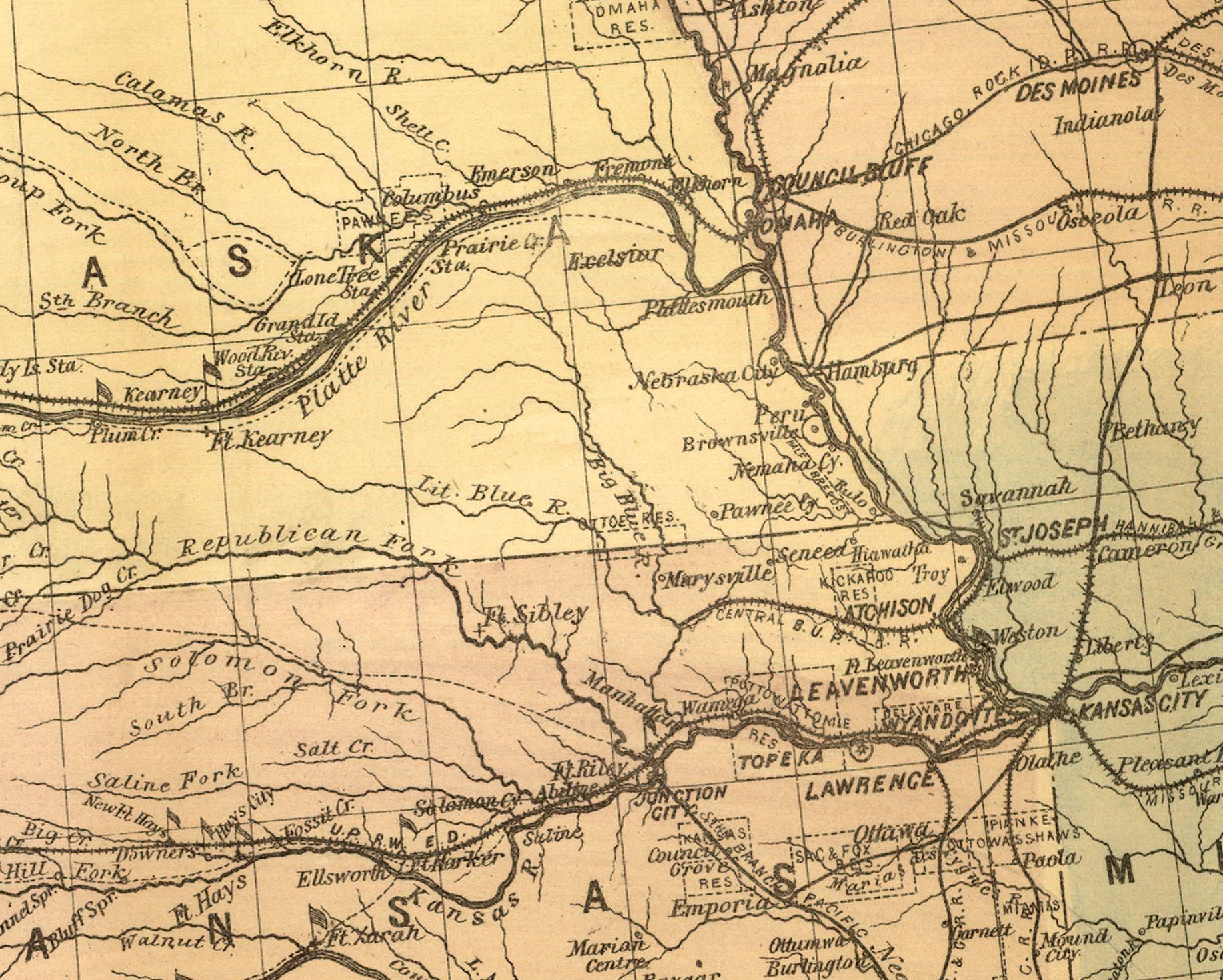 A portion of "Map of the routes of the Union Pacific Rail Roads with their eastern connections, compiled from authorized explorations, public surveys, and other reliable data from the departments of the government."